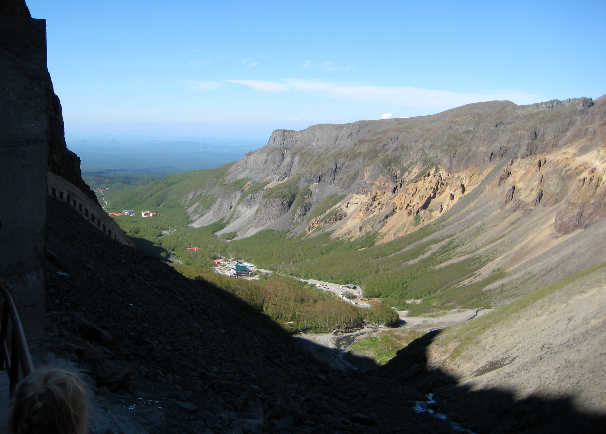 Changbai Shan, view from the mountain over the North slope